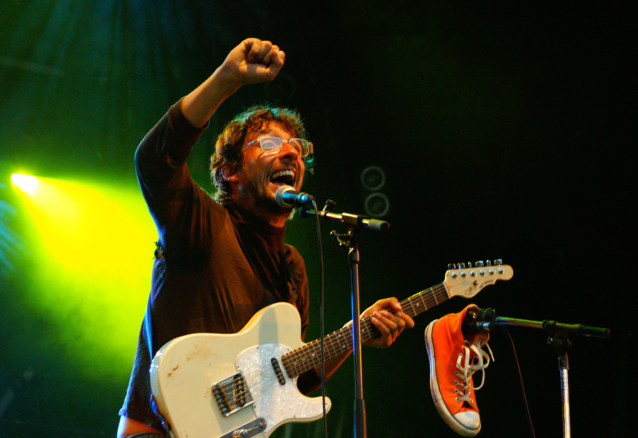 Didier Super live at Aux Zarbs festival (Auxerre, France).